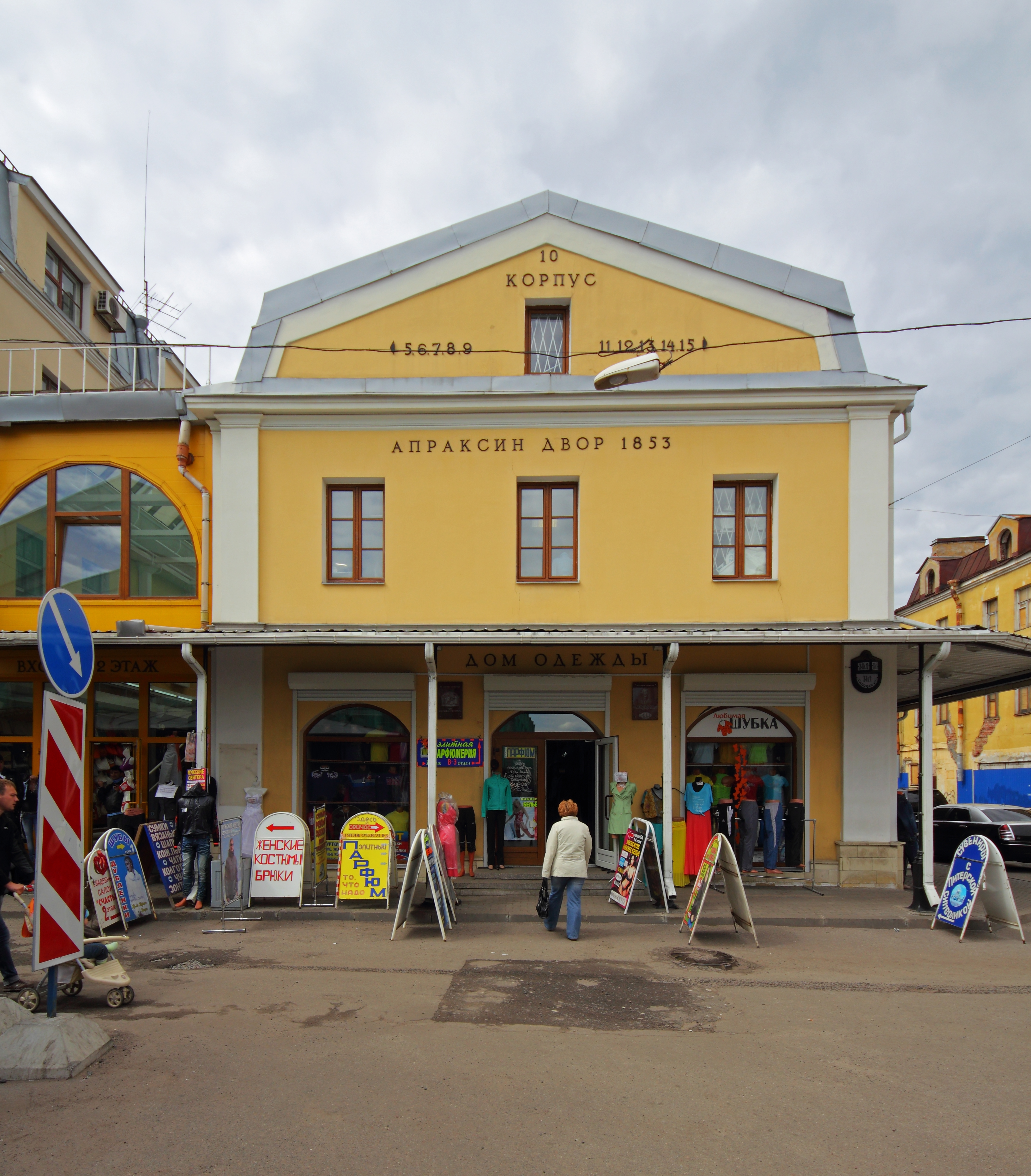 Saint Petersburg, Russia. Some buildings of the Apraksin Dvor market.